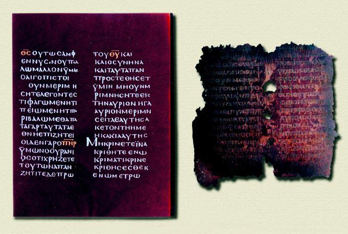 Page from the Codex Purpureus Beratinus (Mt. 6:30 - 7:2), now housed in the State Archive in Tirana, Albania.